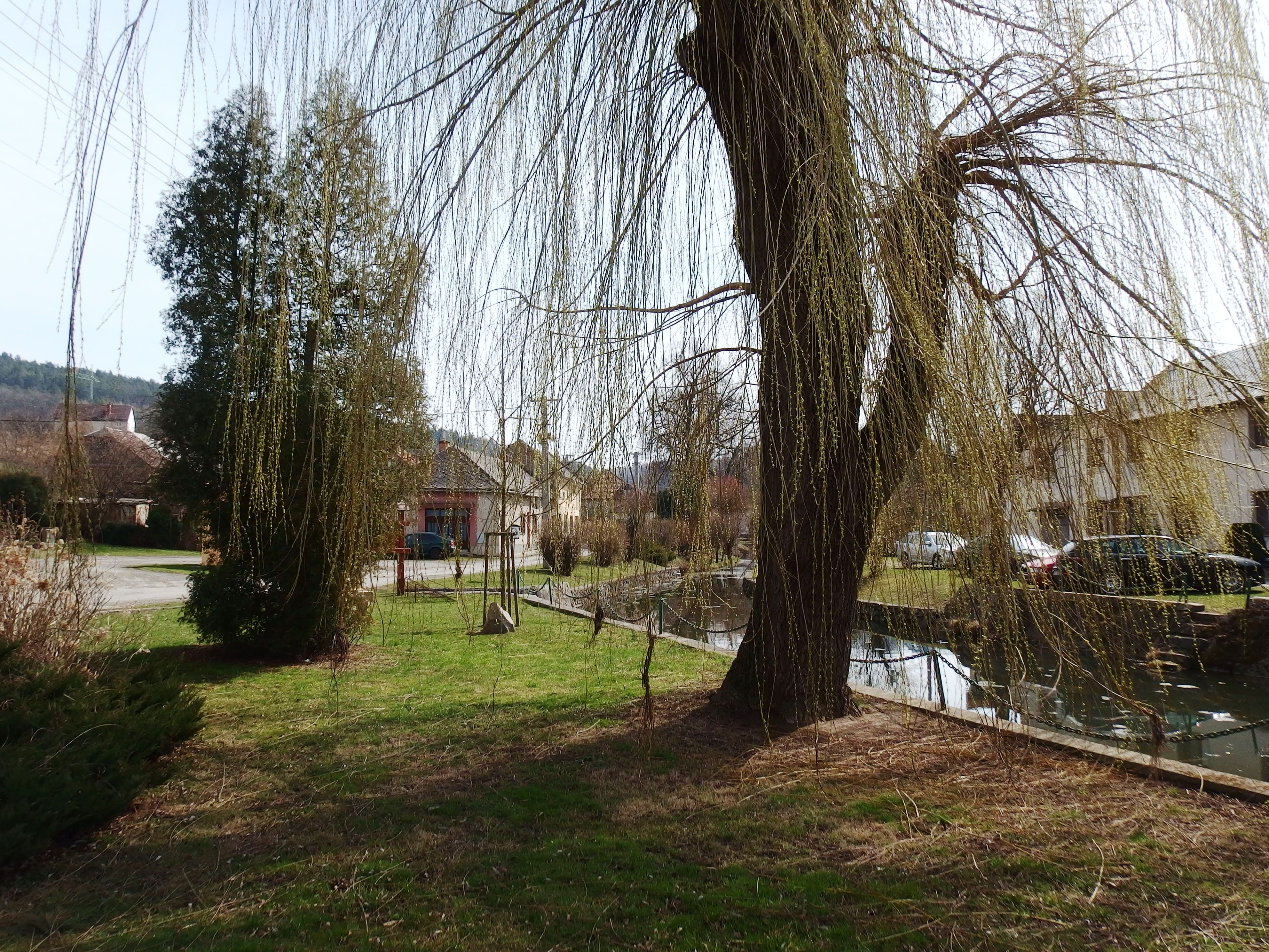 Zdounky, Kroměříž District, Czech Republic, part Divoky.